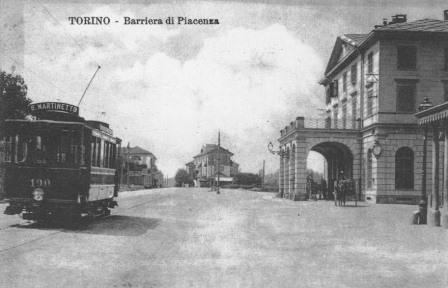 Torino, Barriera Piacenza